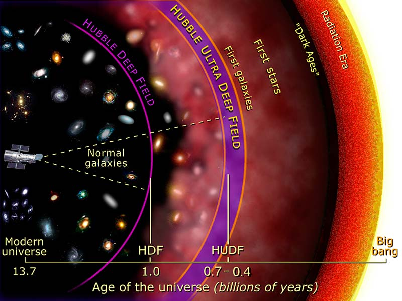 Hubble Ultra Deep Field diagram. It shows the 1995 Hubble Deep Field and the Hubble Ultra Deep Field from 2003 and 2009.